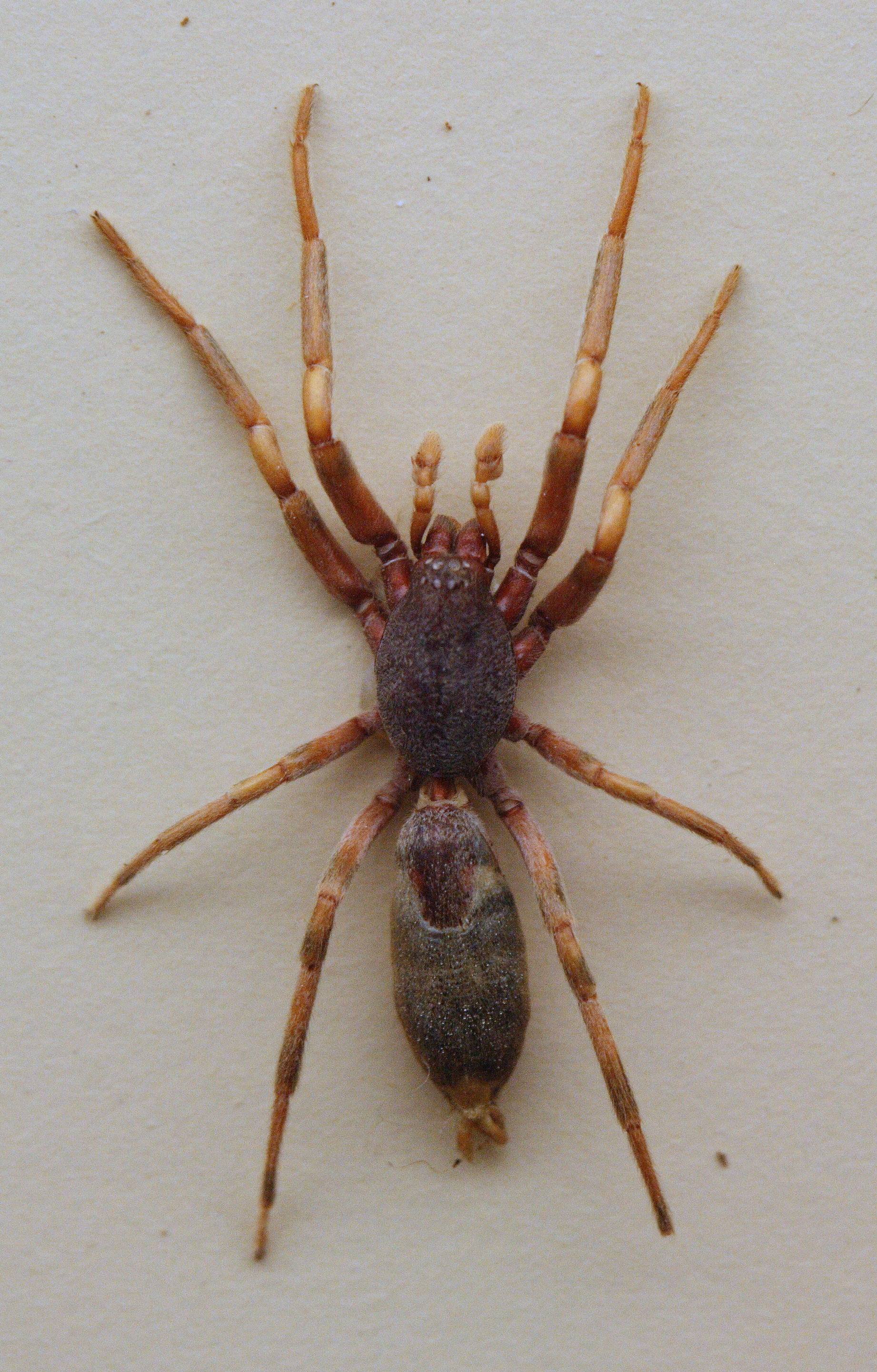 Specimen in the Australian Museum spider display.